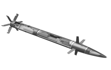 Diagram of the EX-171 Extended Range Guided Munition (ERGM).